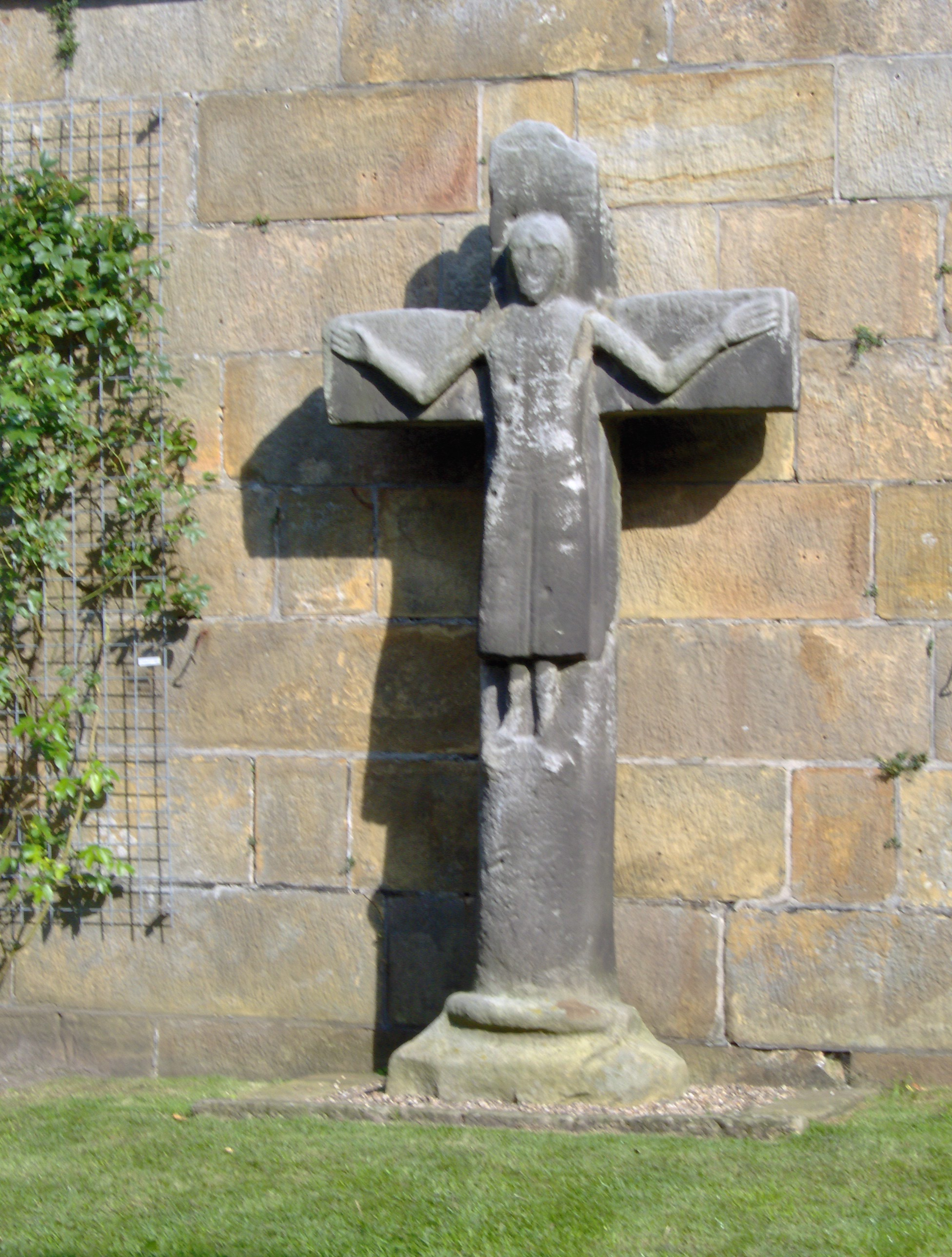 The statue Herrgott von Bentheim in the Bentheim castle, made out of Bentheim sandstone in the 10th or 11th century. Earliest proof of Christianity in Northern Germany.